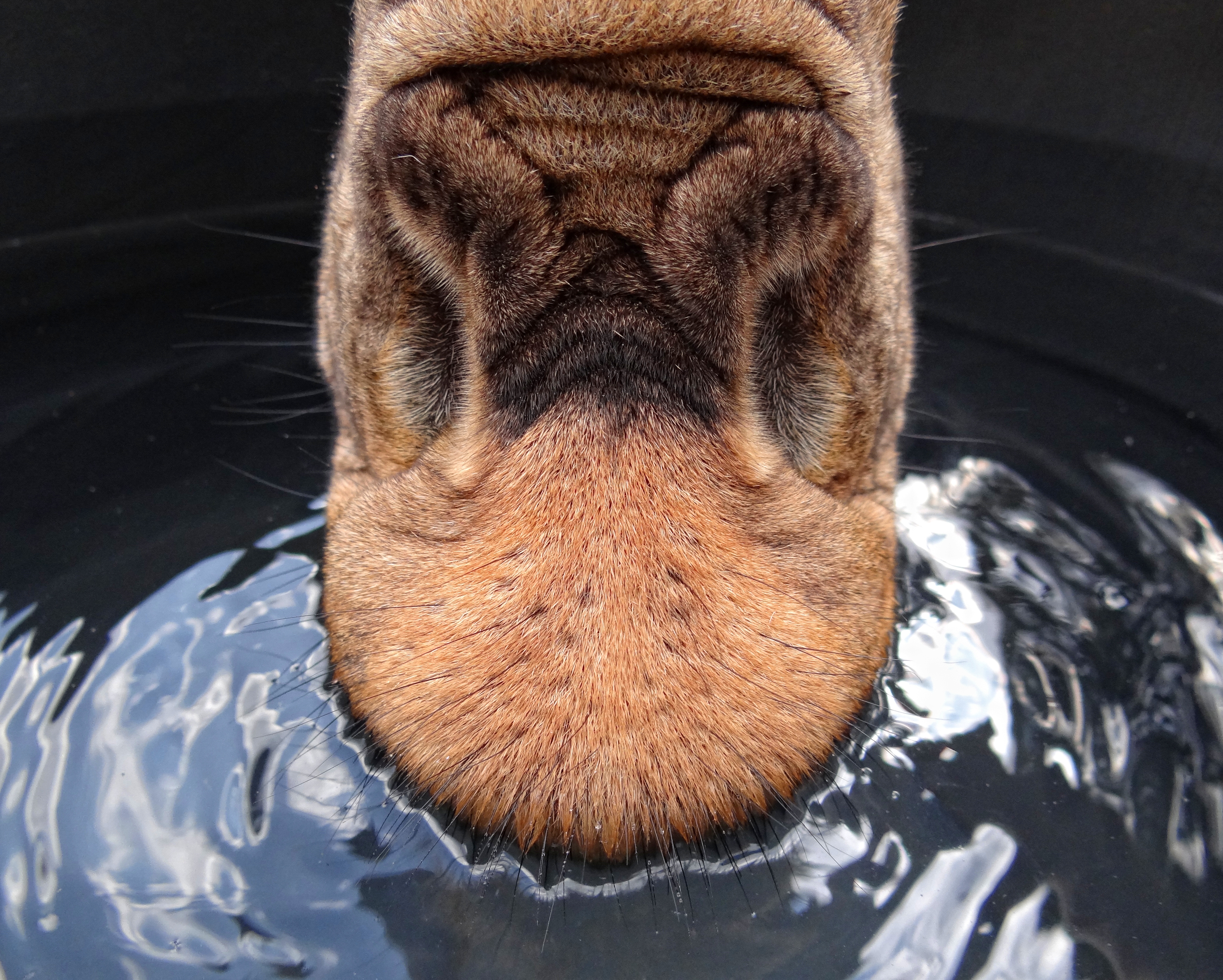 The appearance of a giraffe's snout when drinking from surface water.